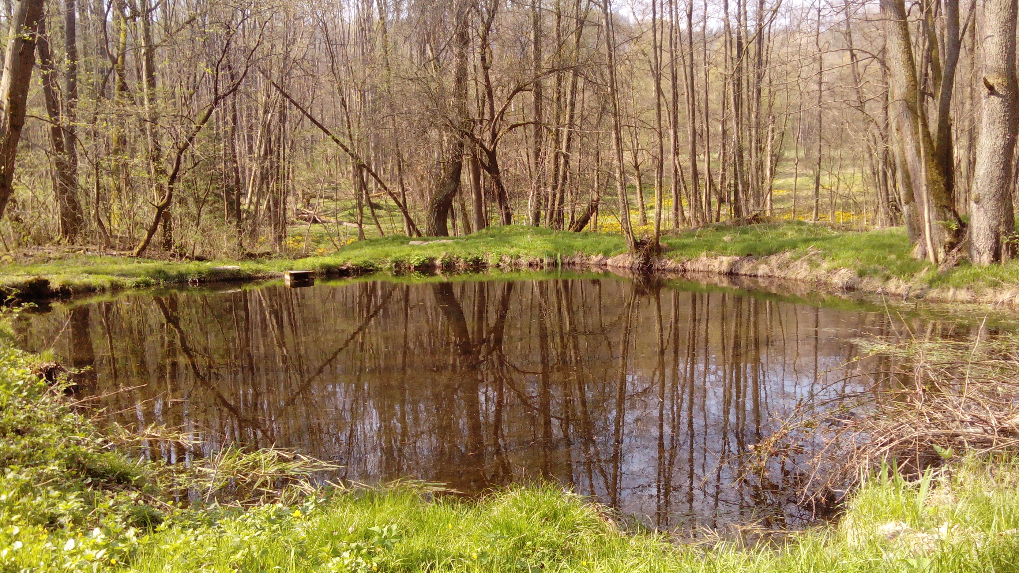 Pond in Fichtenbach abandoned village under Čerchov mountain in Domažlice district, Czech Republic.